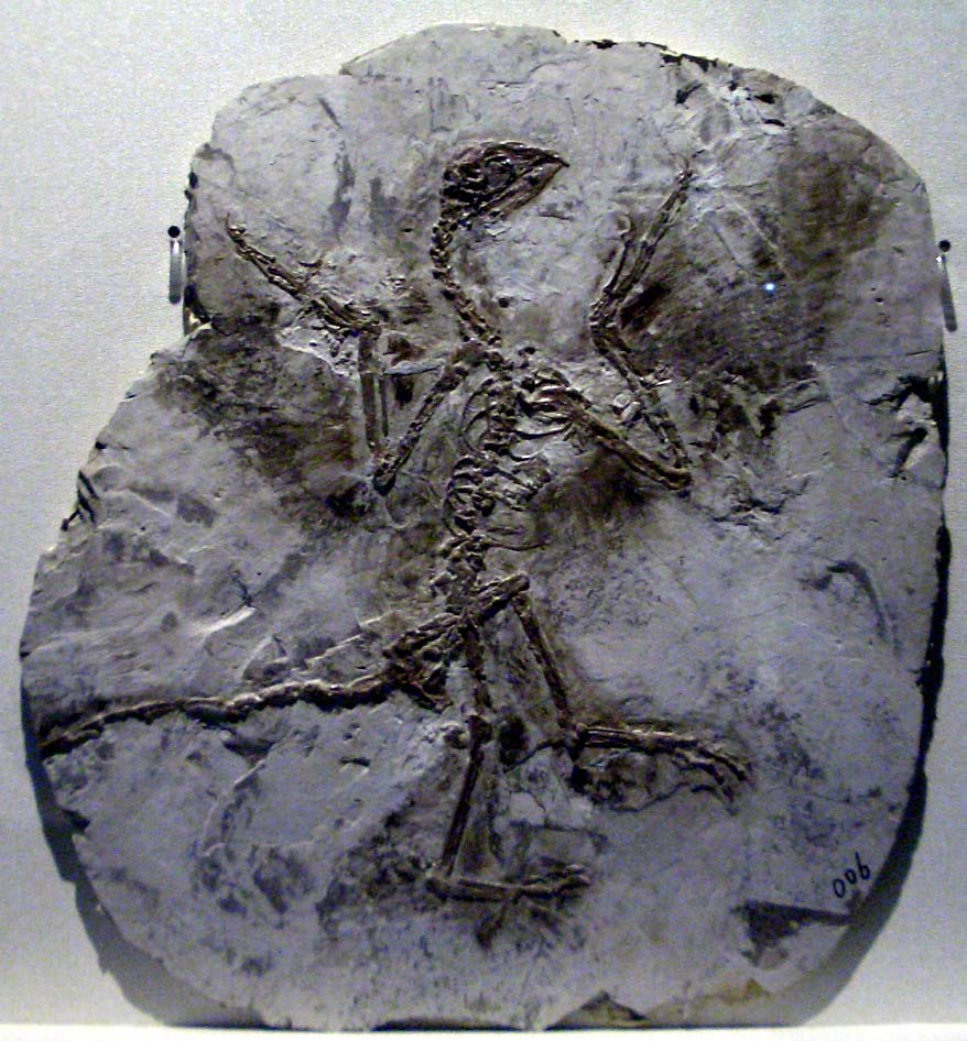 Shenzhouraptor sinensis fossil displayed in Hong Kong Science Museum